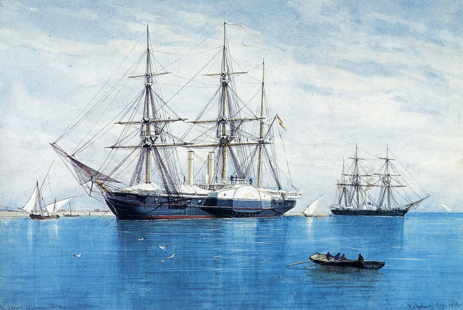 Paddle Steamer Isabel II leader of her class (4 ships buildin in 2 diferent shipyard from London), paint by Rafael Monleón